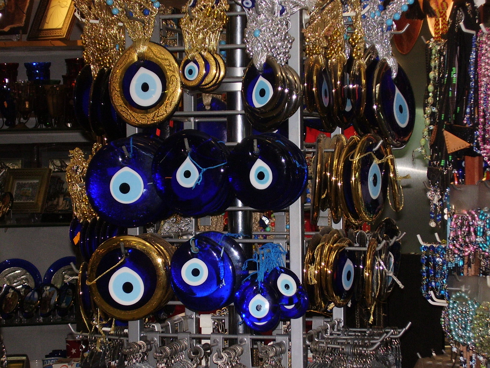 Blue eyes, sold as protection against the evil eye.